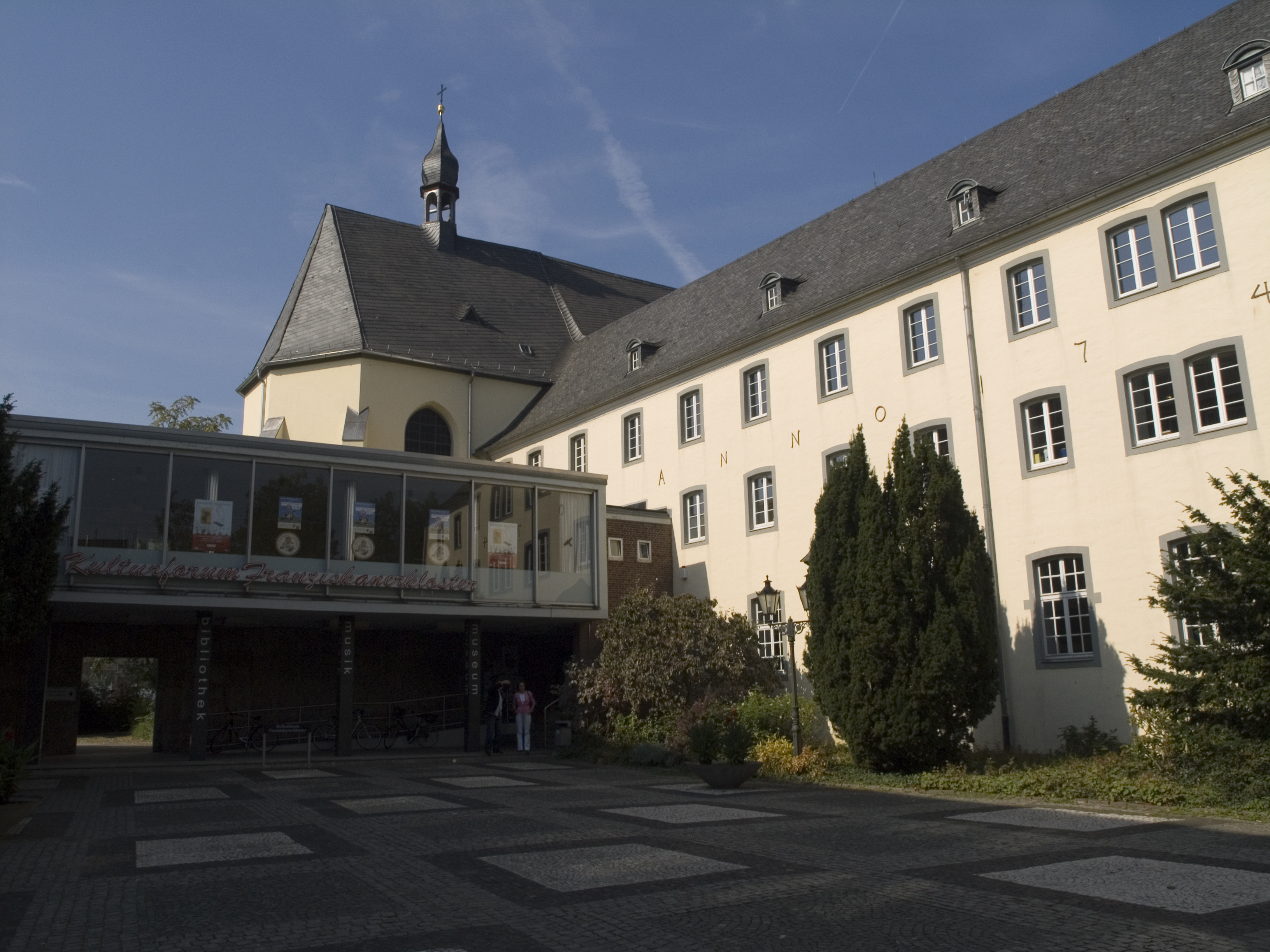 Germany, NRW, Kempen. Paterskirche This image shows a heritage building in Germany, located in the North Rhine-Westphalian city Kempen (no. 5).